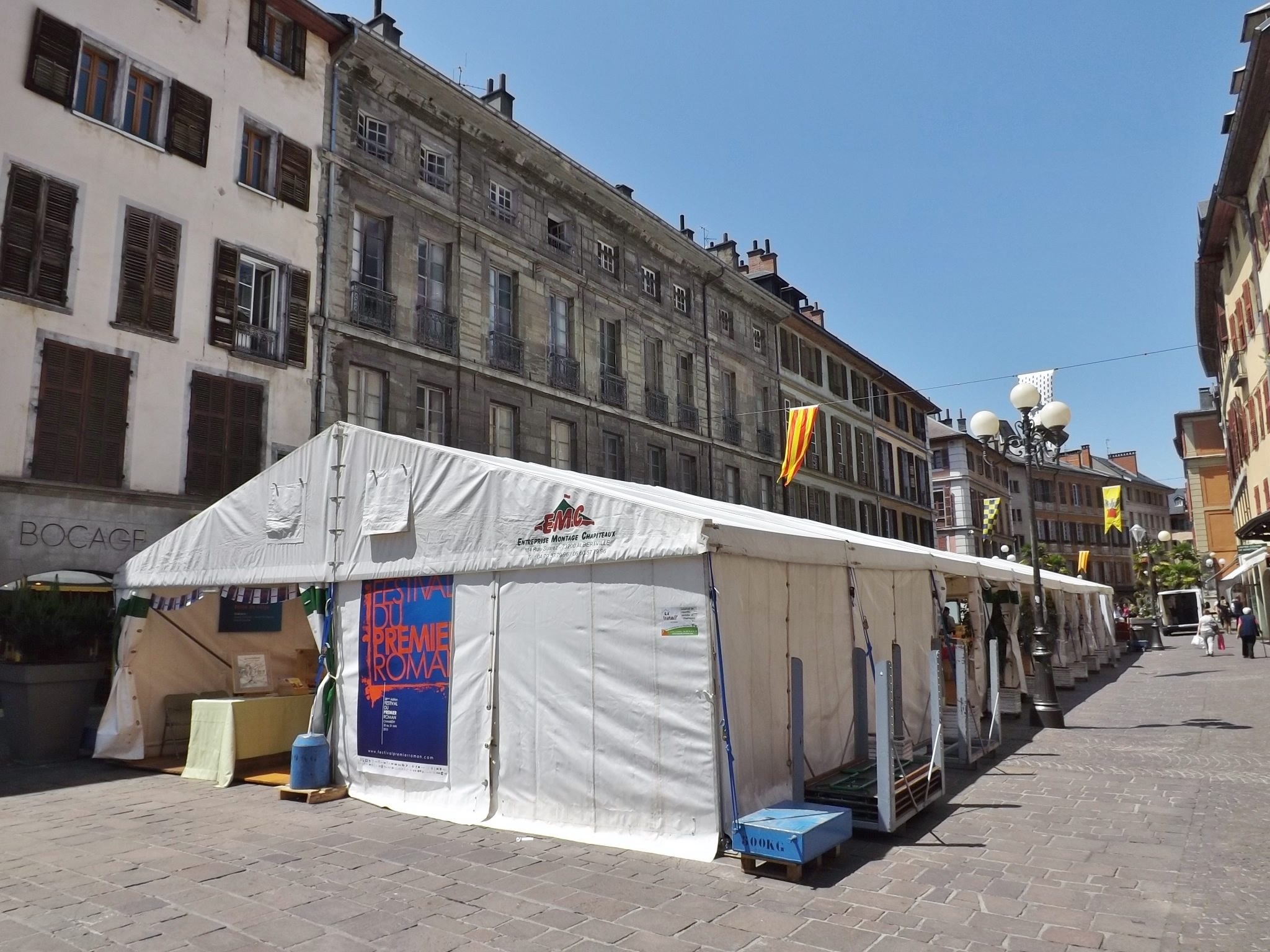 Sight of the tent installed on the place Saint-Léger place, during the Festival du Premier Roman festival taking place each year in May in Chambéry, Savoie, France.